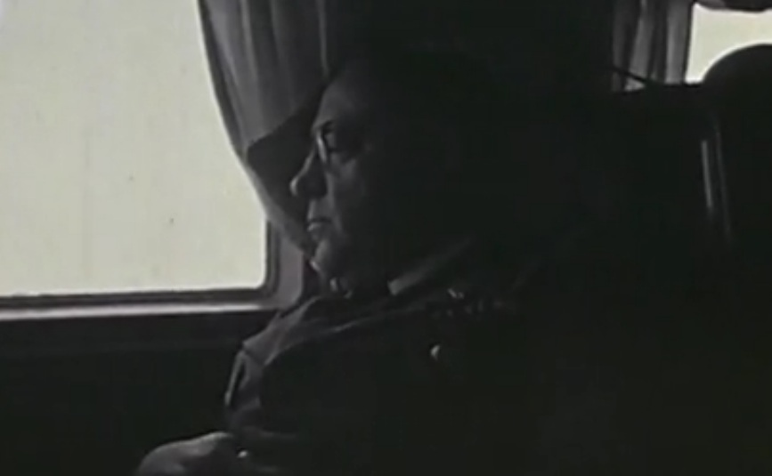 Theo Morell (1886-1948)